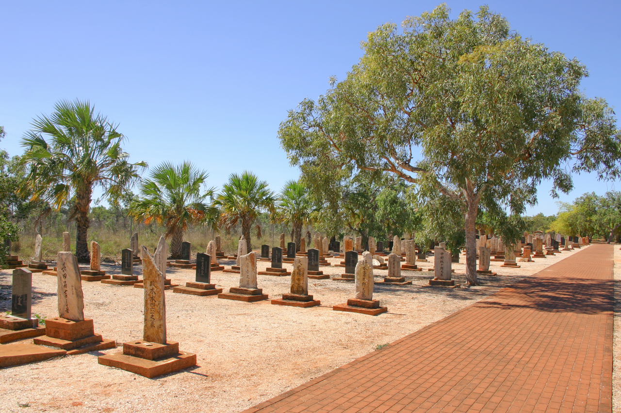 Headstones in the Japanese of Broome, Western Australia